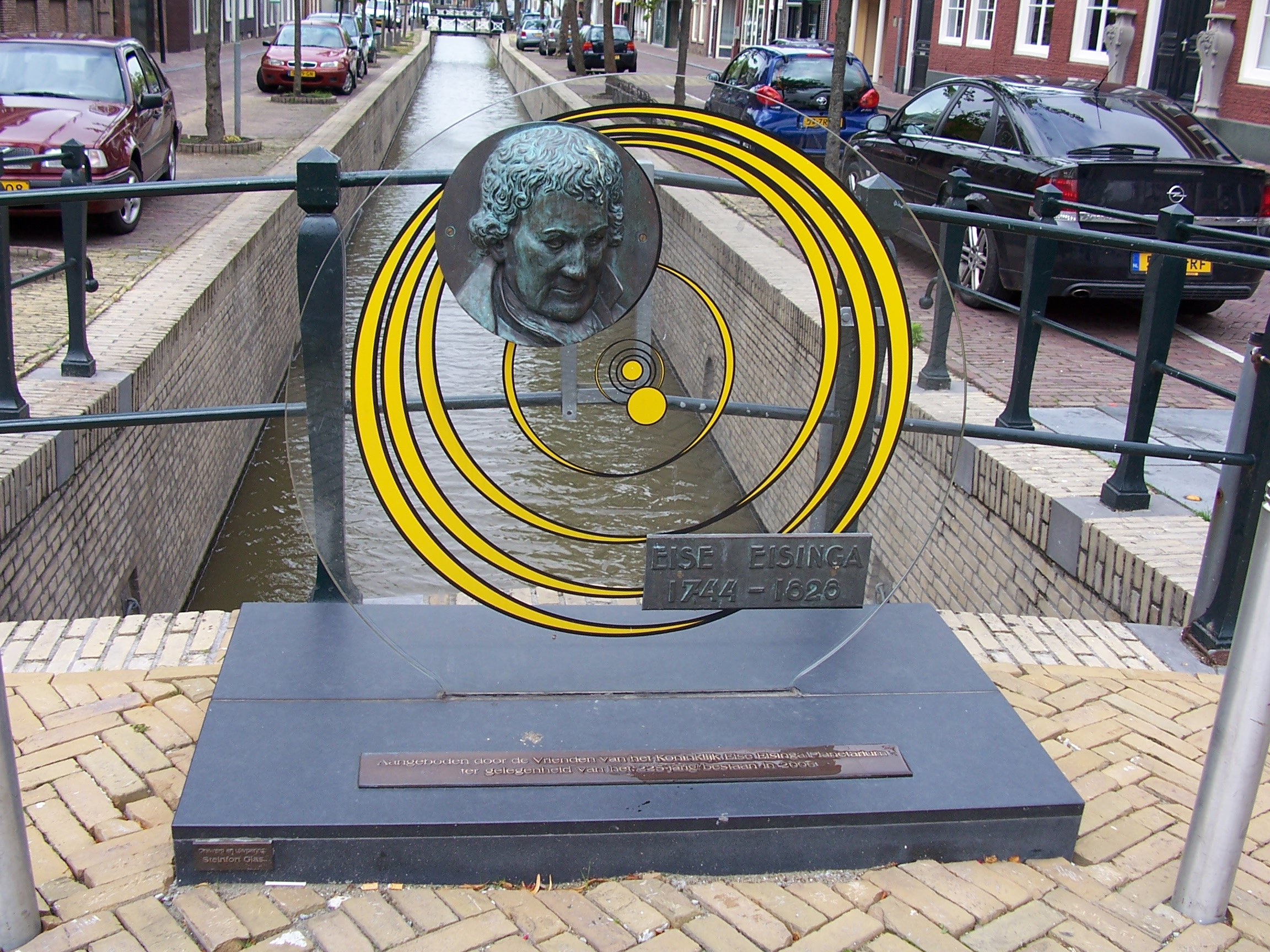 Eise Eisinga